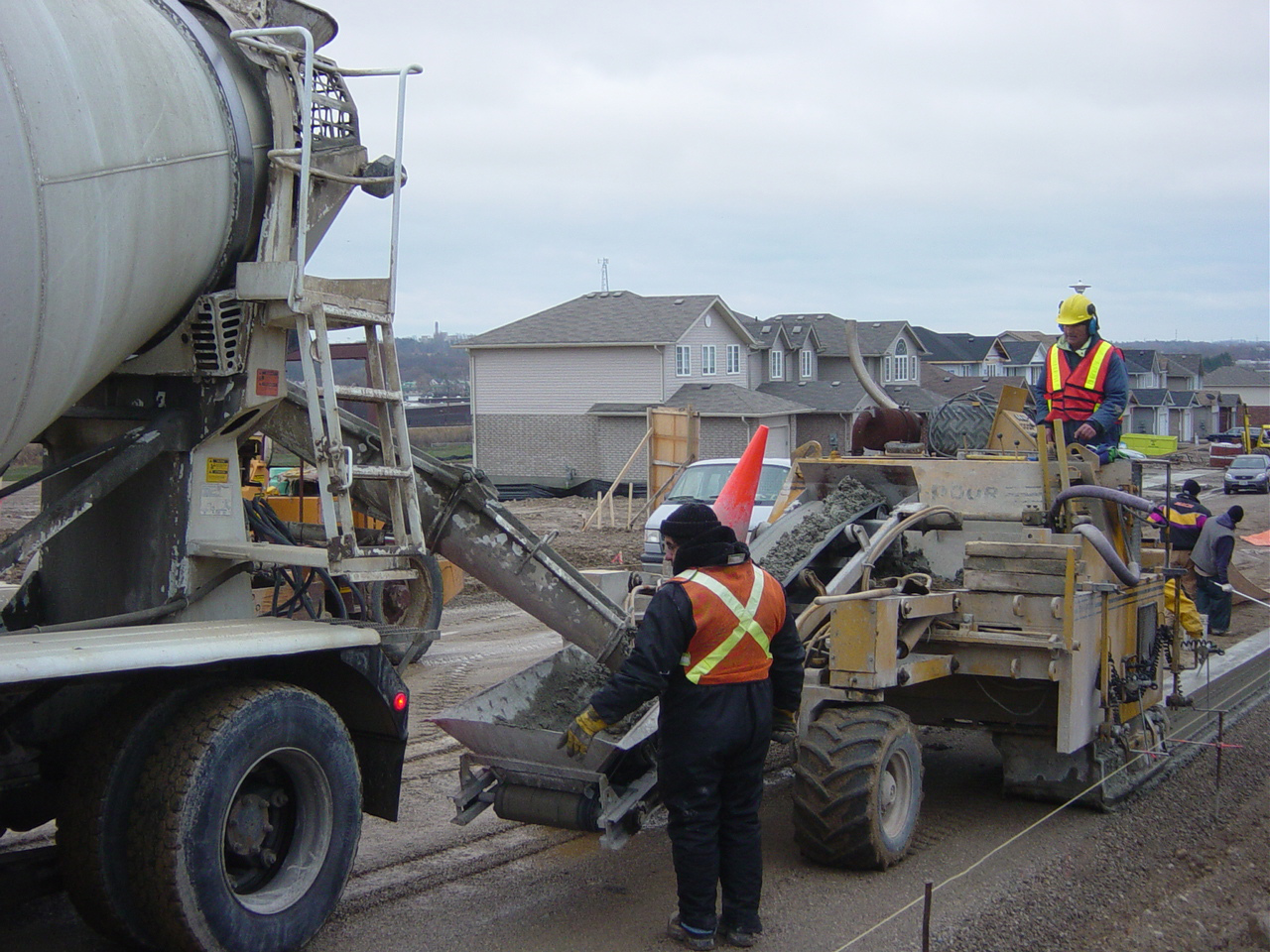 Concrete curb construction. This is a method called "slipforming". The stiff mix concrete is loaded from the concrete truck into the curb machine where it is dropped into a vibrating steel form that moves with the machine. As the machine moves along, the concrete is left behind in the shape of the curb and gutter. The string adjacent to the machine dictates the grade of the curb and gutter.